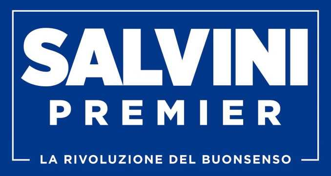 Logo of Matteo Salvini campaign.